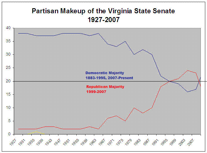 A chart showing the partisan makeup of the Senate of Virginia.